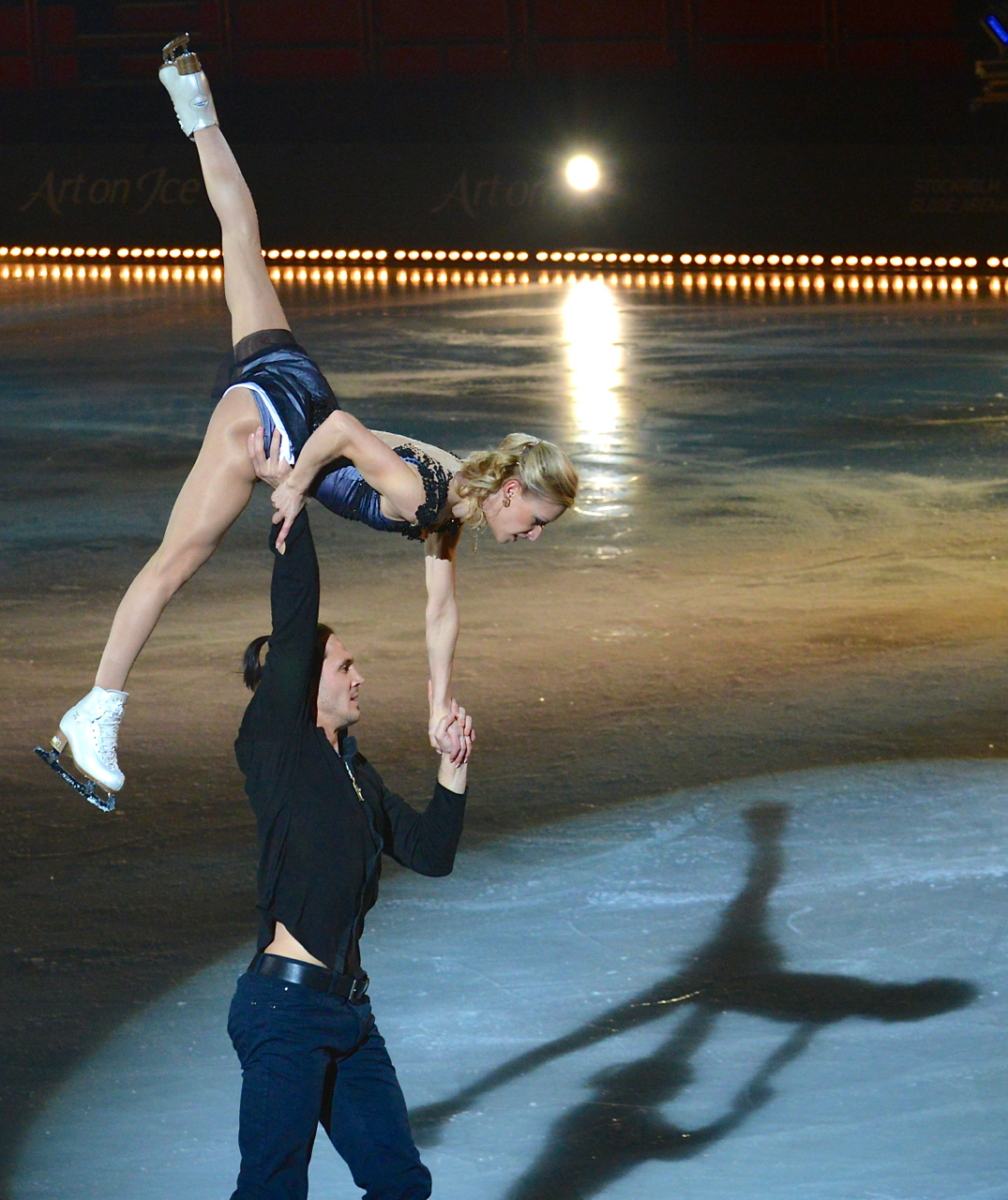 "Art on Ice" at the Globe Arena in Stockholm, March 13, 2014.